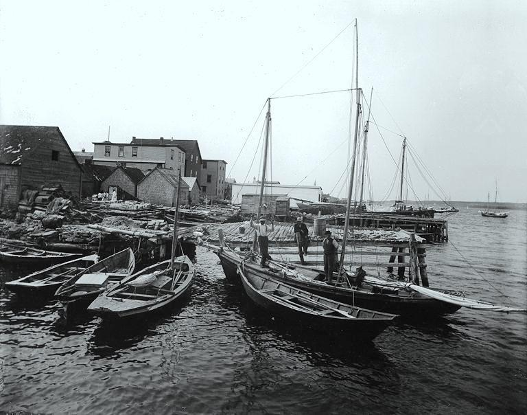 Photograph, Chéticamp harbour, Cape Breton, NS, about 1914, Wm. Notman & Son, Silver salts on glass - Gelatin dry plate process - 20 x 25 cm